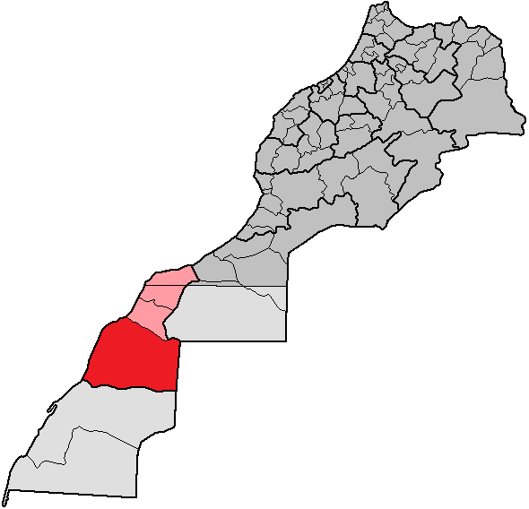 Location of the province Boujdour within the region Laâyoune-Boujdour-Sakia El Hamra, Morocco. In total, Morocco has 16 regions, subdivided into 62 provinces and 13 prefectures.